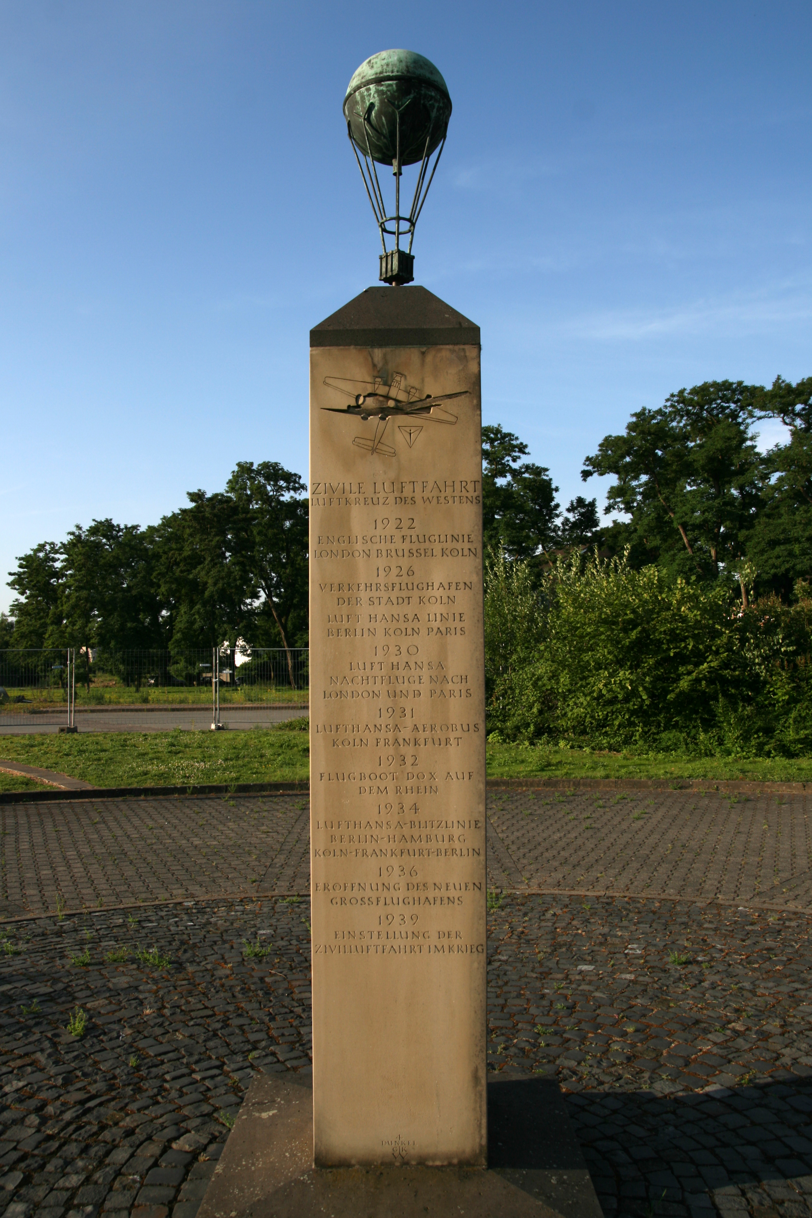 Memorial, showing airport Butzweilerhof's history, Cologne